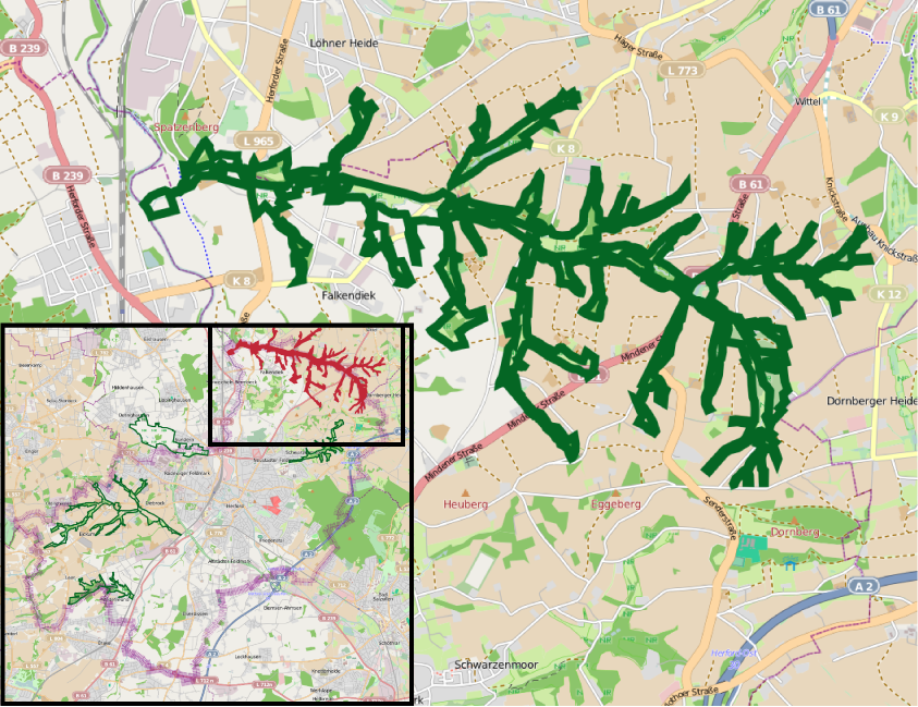 Herford - Nature reserve Bramschebach-Nagelsbachtal - overview map Number and borders of nature reserves are subject to frequent change. In order to facilitate reproduction of this map from openstreetmap, the following data is stored here: export boundaries: north: 52.18; west: 8.654; east: 8.76; south: 52.13; mapnik svg, scale 1:50.000 nature reserve boundary stroke weight 10.0; nature reserve stroke color: R 5, G 102, B 36; municipality border stroke weight: as found